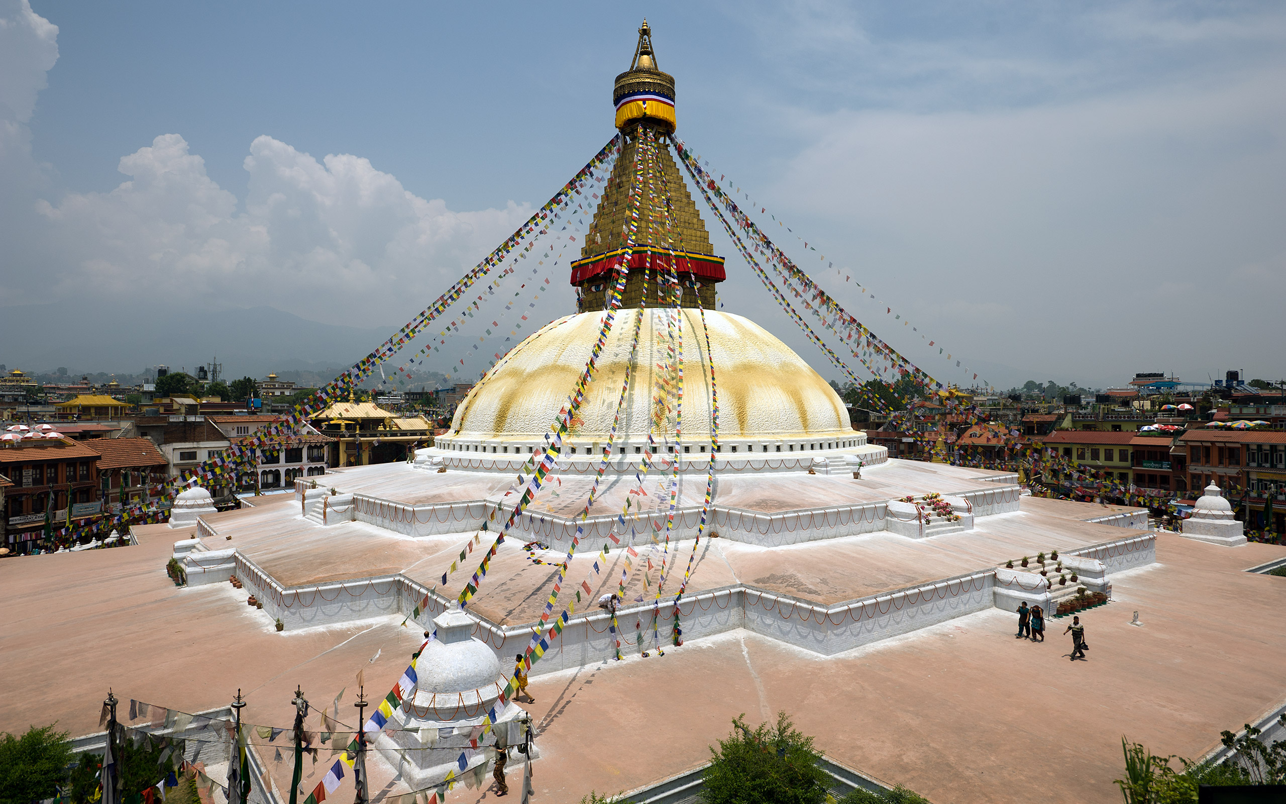 Boudhanath (Devanagari: बौद्धनाथ) (also called Boudha, Bouddhanath or Baudhanath or the Khāsa Caitya) is a stupa in Kathmandu, Nepal.The Gopālarājavaṃśāvalī says Boudhanath was founded by the Nepalese Licchavi king Śivadeva(c. 590-604 CE); though other Nepalese chronicles date it to the reign of King Mānadeva (464-505 CE). नेपाली: बौद्धनाथ स्तुप (काठमाडौं), याम्वु शहरको पूर्वी भागमा अवस्थित प्रसिद्ध बौद्ध स्तूप तथा तीर्थस्थल हो । यसको निर्माण लिच्छवीकालमा भएको हो ।